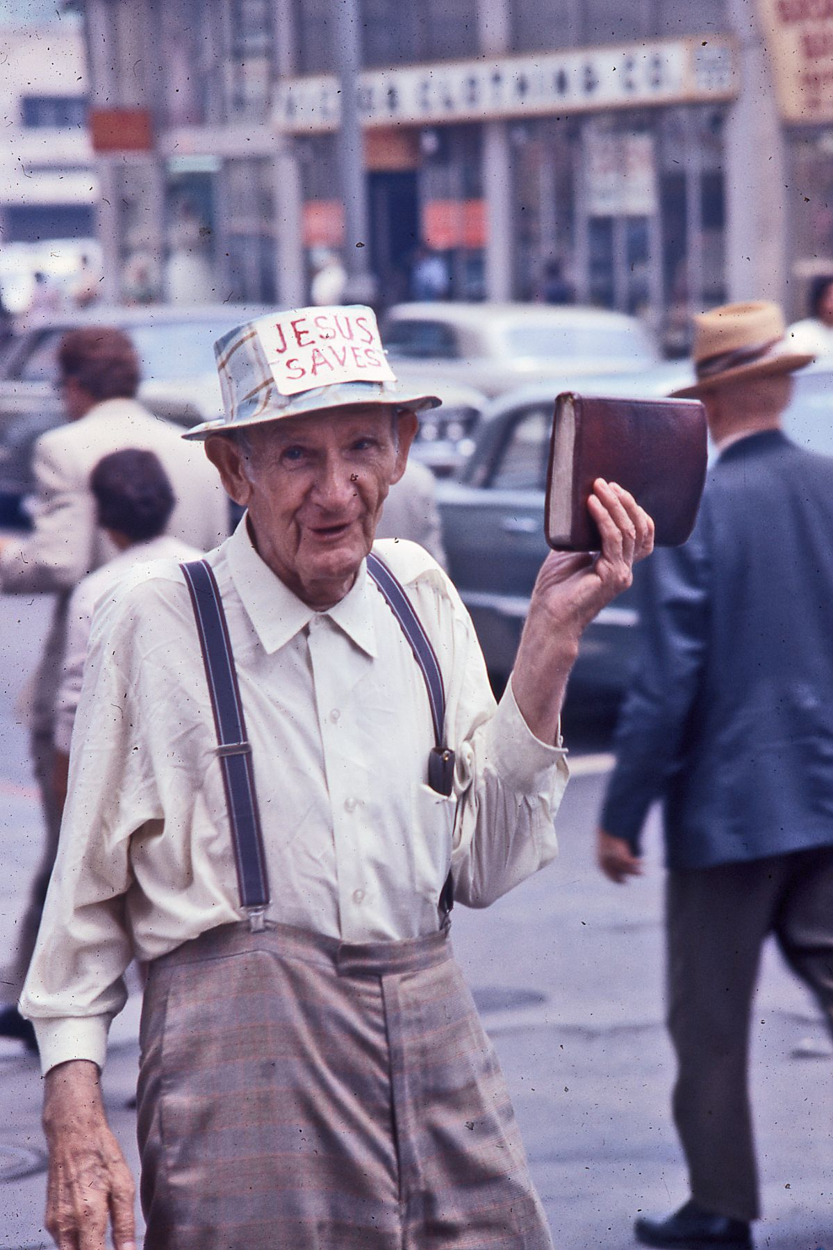 This street preacher is holding a Bible and sporting a "Jesus Saves" sign on his hat. He walked the streets of Downtown Los Angeles, California, proclaiming "Jesus!" in a stentorian voice. August 1972. Other information Photo by George Garrigues